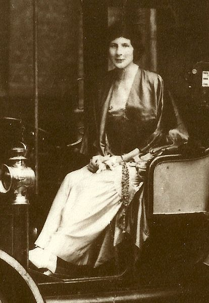 Photo of Barbara Lupton (later Lady Bullock) - taken at Cambridge University c. 1913